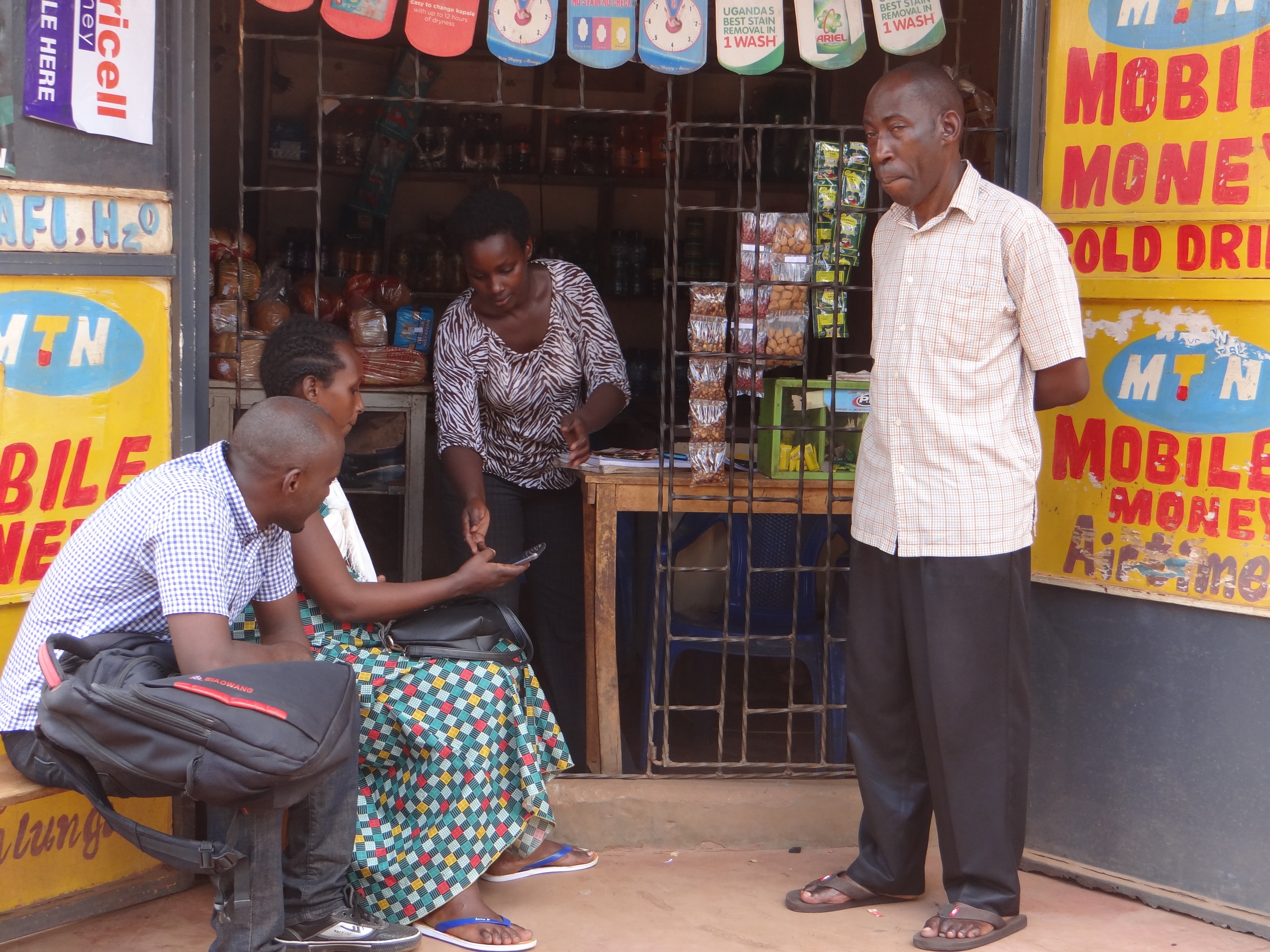 mobile banking is how most Ugandans send, receive and bank money This is an image of "African people at work" from Uganda